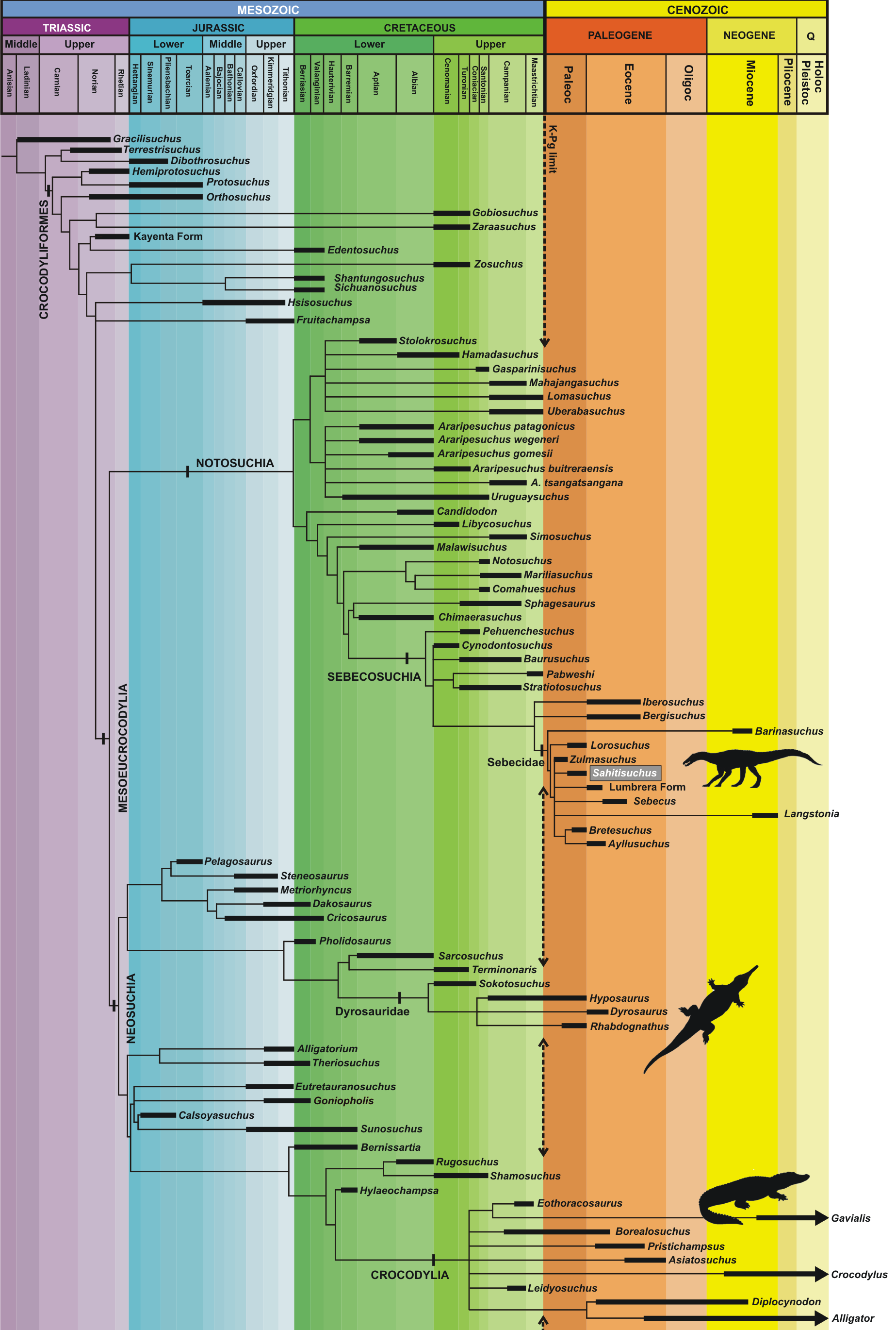 Biochronology of the Crocodylomorpha based on the strict consensus tree obtained by the phylogenetic analysis (see text for details) and recorded temporal range.